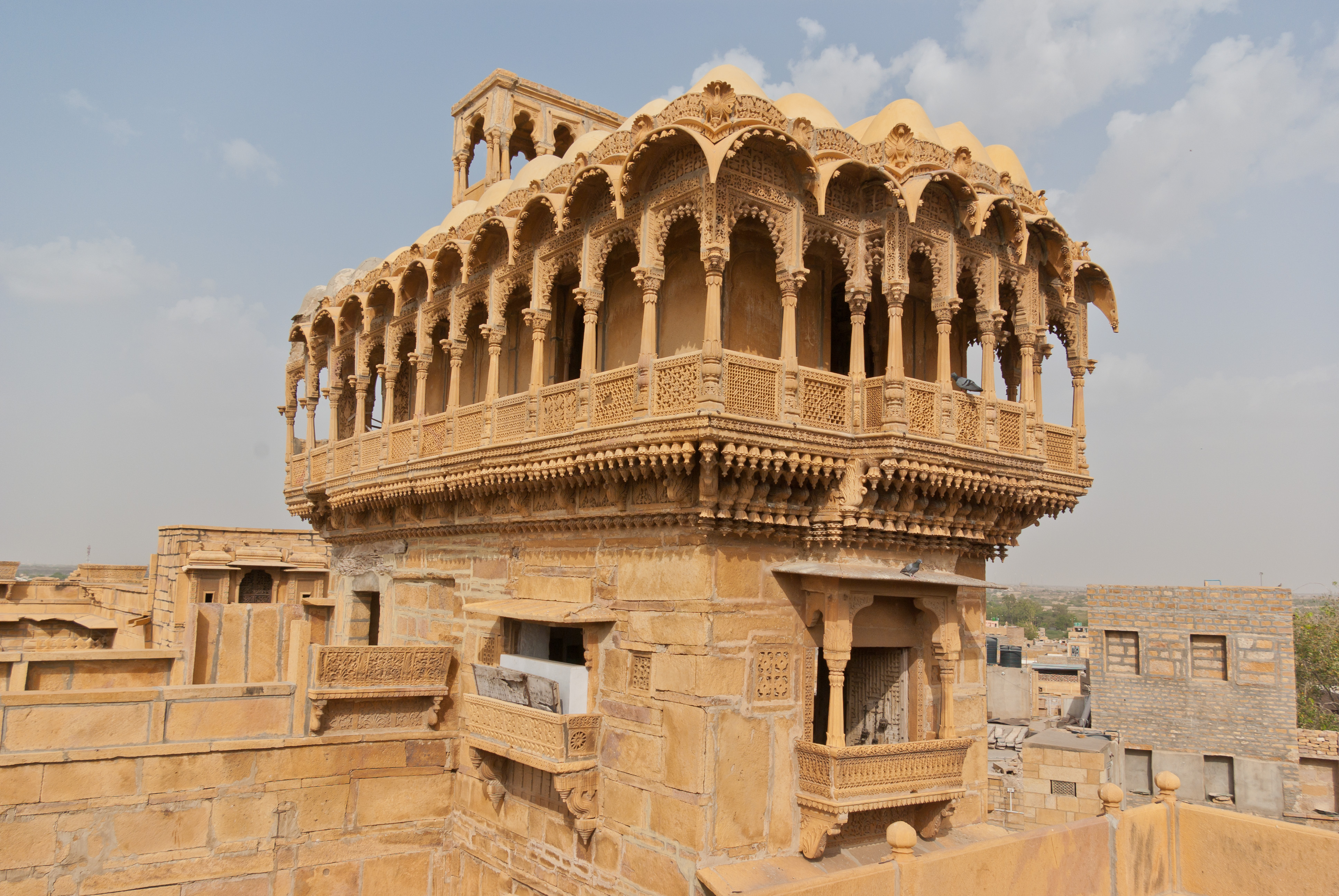 Salim Singh ki Haveli, Jaisalmer